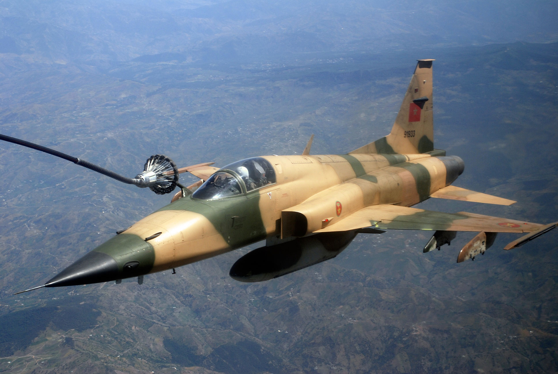 A Royal Moroccan Air Force F-5 jet refuels during a fixed wing aerial refueling mission in support of Exercise AFRICAN LION 2009.